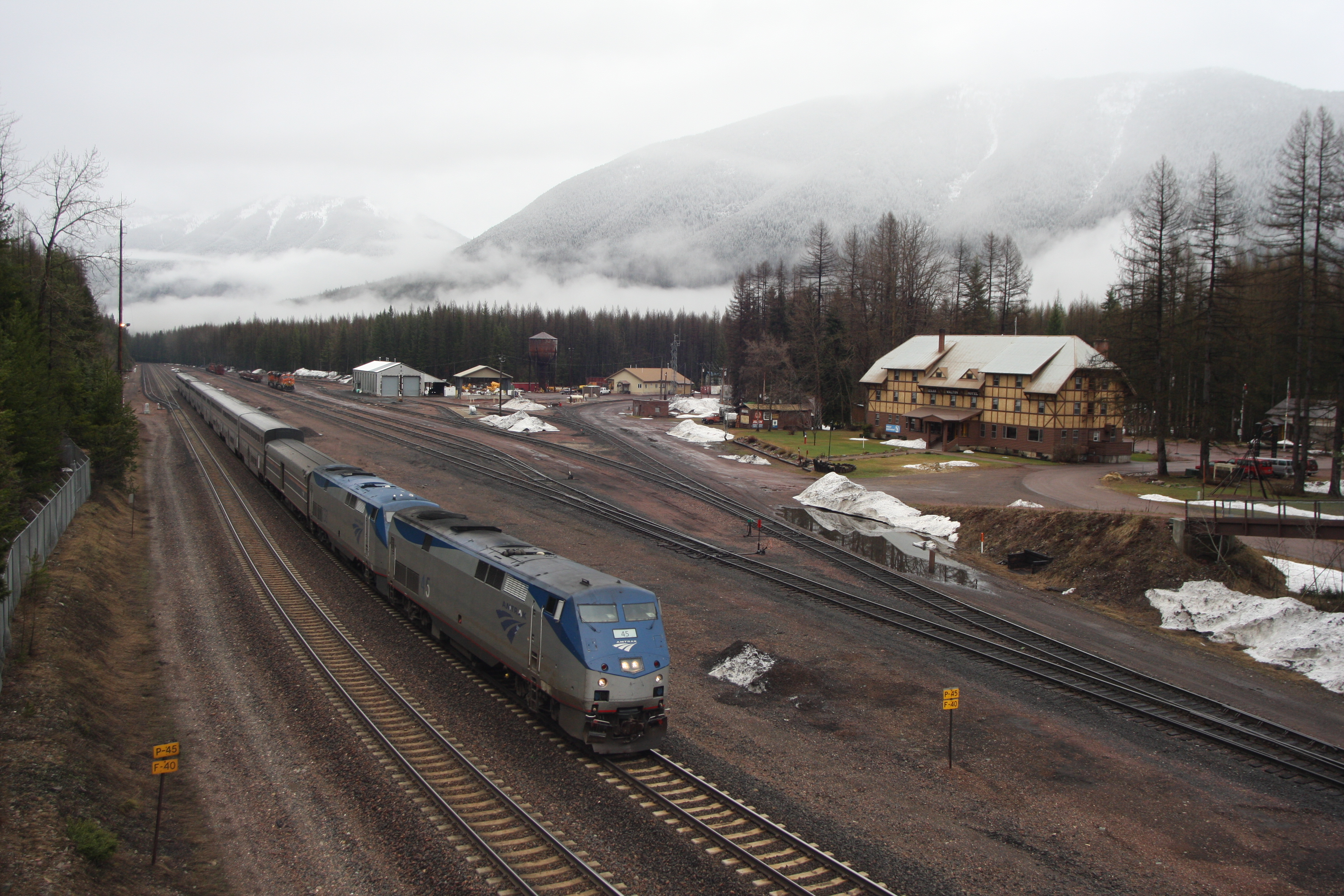 The Empire Builder passing Izaak Walton Inn just before stopping at nearby Essex station in May 2009